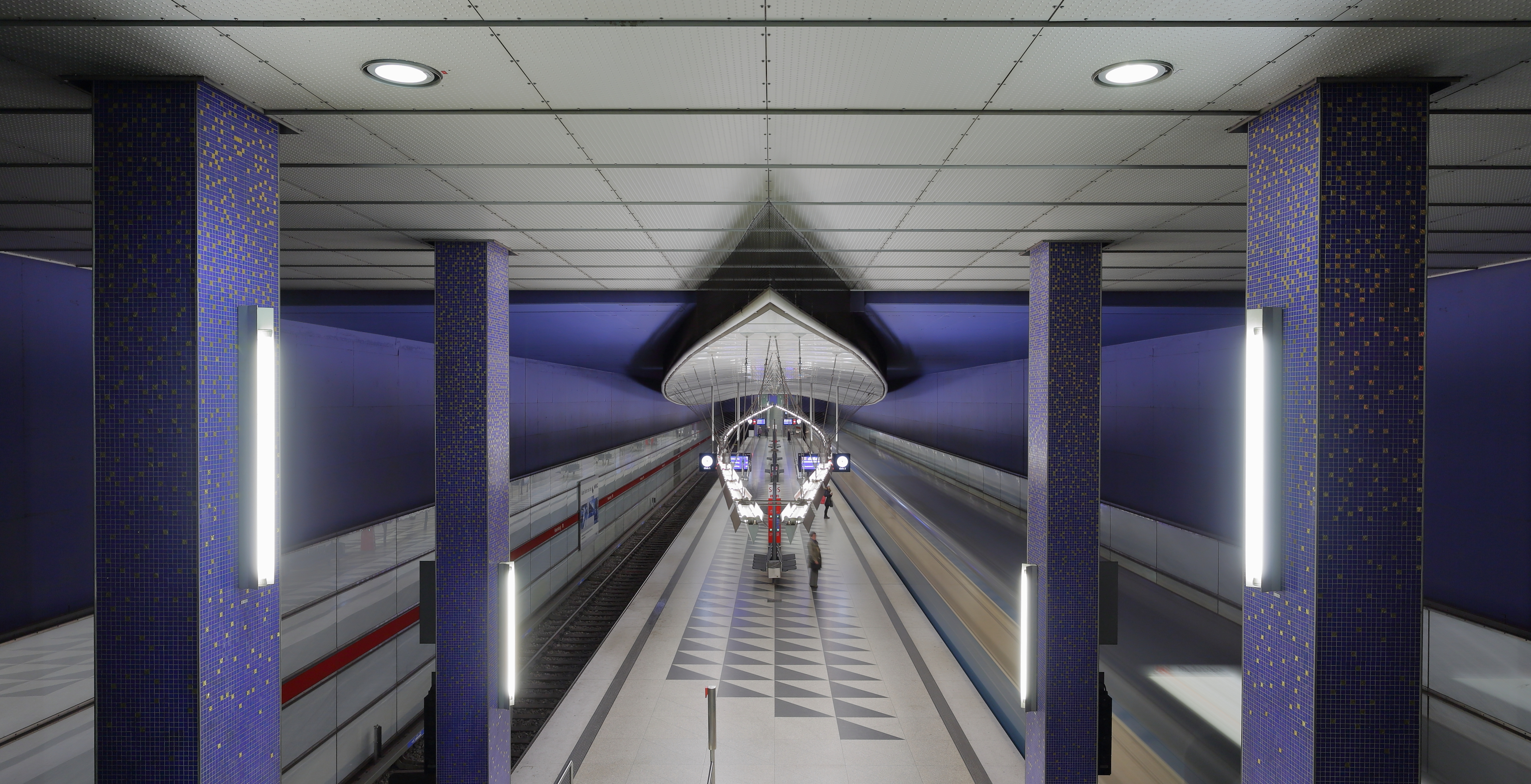 Munich subway station Hasenbergl